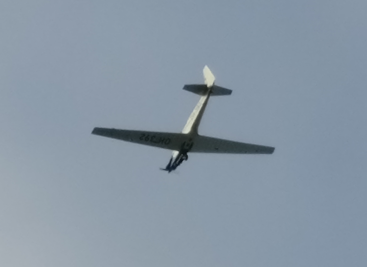 Fournier RF-5, register OH-392 in-flight over Turku